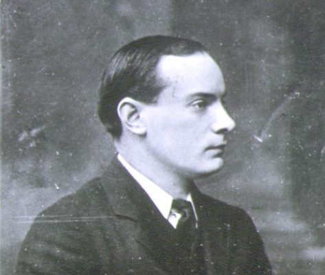 Portrait of Irish nationalist political activist Patrick Pearse.